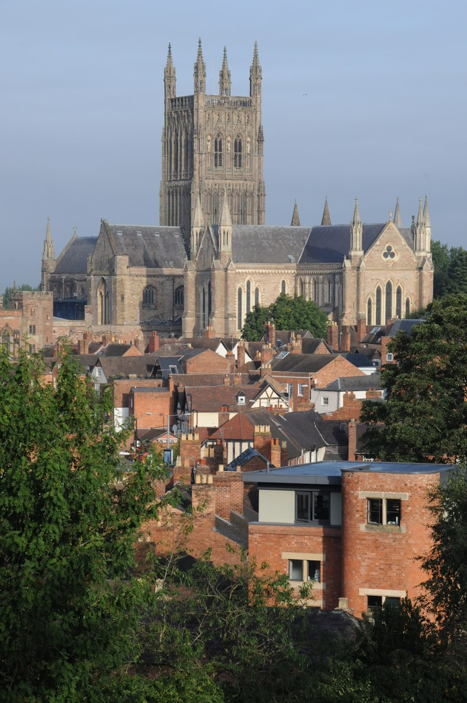 Worcester Cathedral